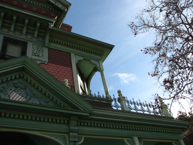 Close-up photo of front facade's right side on the Hale House — at Heritage Square Museum, north-central Los Angeles, California. The Victorian Queen Anne style house was located in the nearby Highland Park district for 85 years (1885 - 1970). The Hale House is a Los Angeles Historic-Cultural Monument, and on the National Register of Historic Places. Located since 1970 at the open air Heritage Square Museum (with 7 other historic buildings), in the Arroyo Seco (3800 Homer Street), Los Angeles.